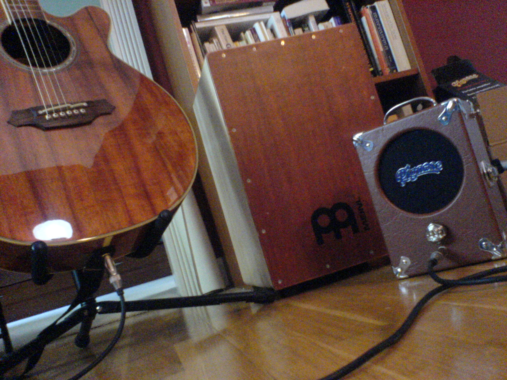 mmmm.... Takamine all koa guitar Mainl cajon Pignose Legendary 7-100 Battery Powered Portable Guitar Amplifier